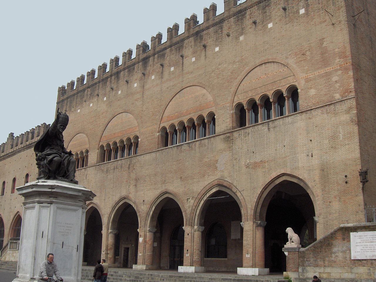 Palazzo dell'Arengo and the bronze statue of pope Paul V (by Nicolò Cordier and Sebastiano Sebastiani, 1611-1613). Rimini, Italy.